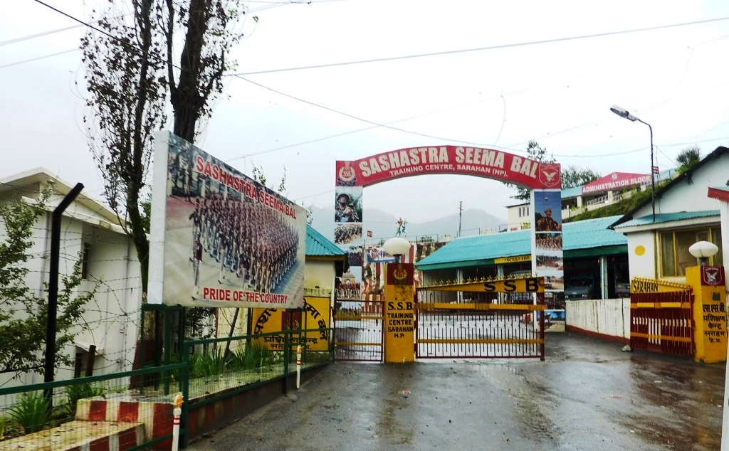 I took this photo near Sarahan, Himachal Pradesh in 2010